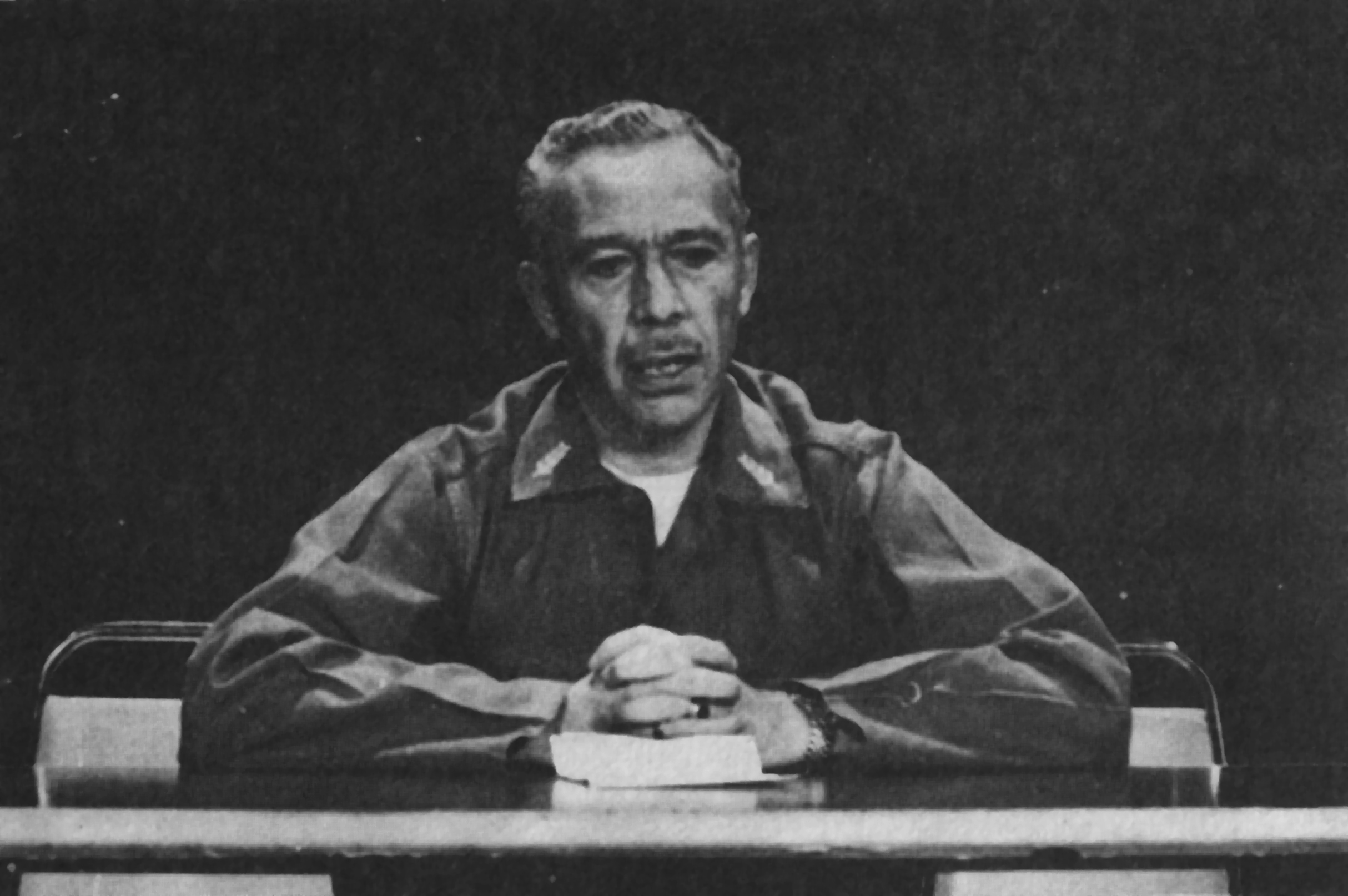 President Laugerud addressing the nation after the 1976 earthquake in Guatemala